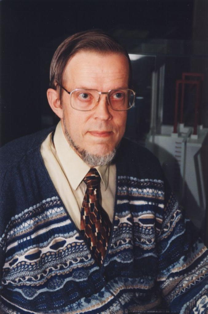 Photograph of the Finnish professor Pekka Pirilä (1945–2015).